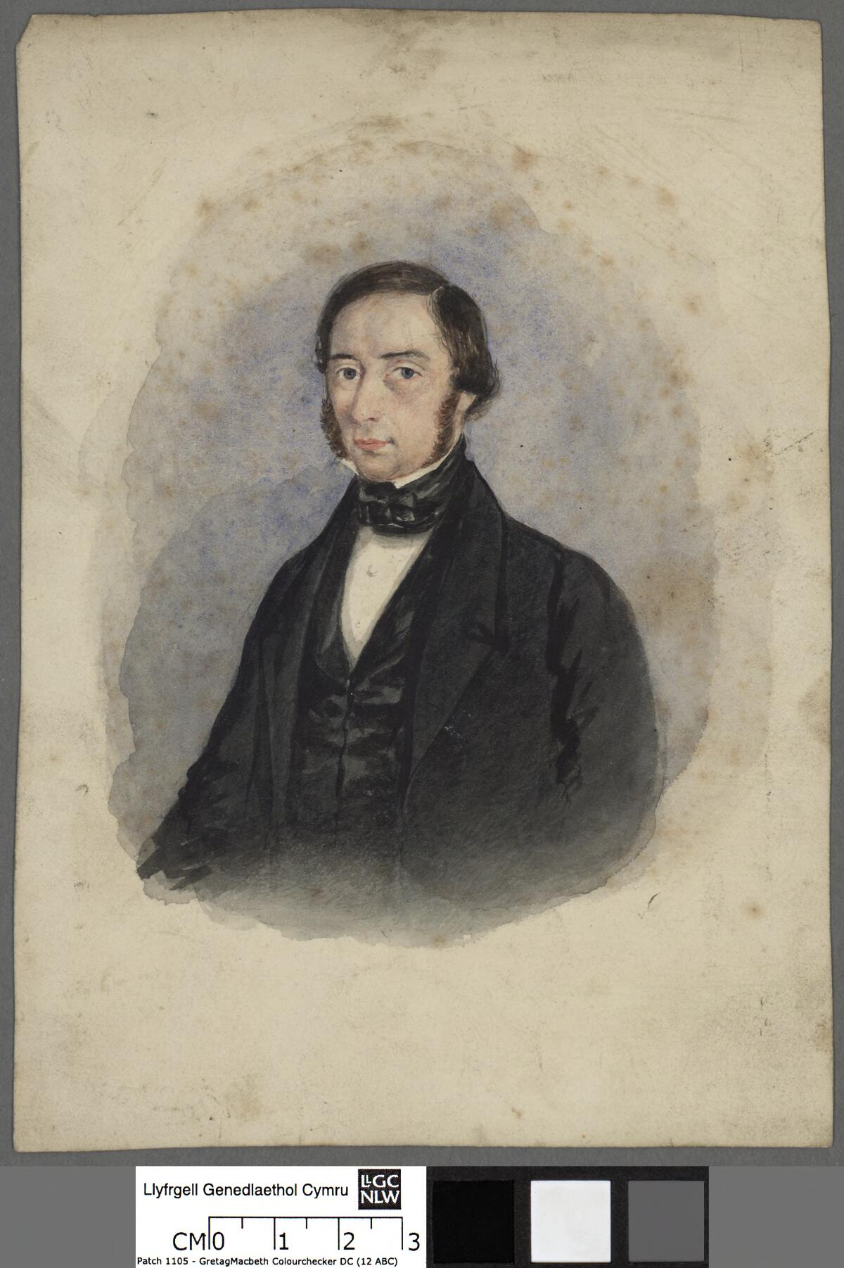 A portrait from the Welsh Portrait Collection at the National Library of Wales. Depicted person: John Johnes – Welsh barrister-at-law and county court judge (1800-1876)